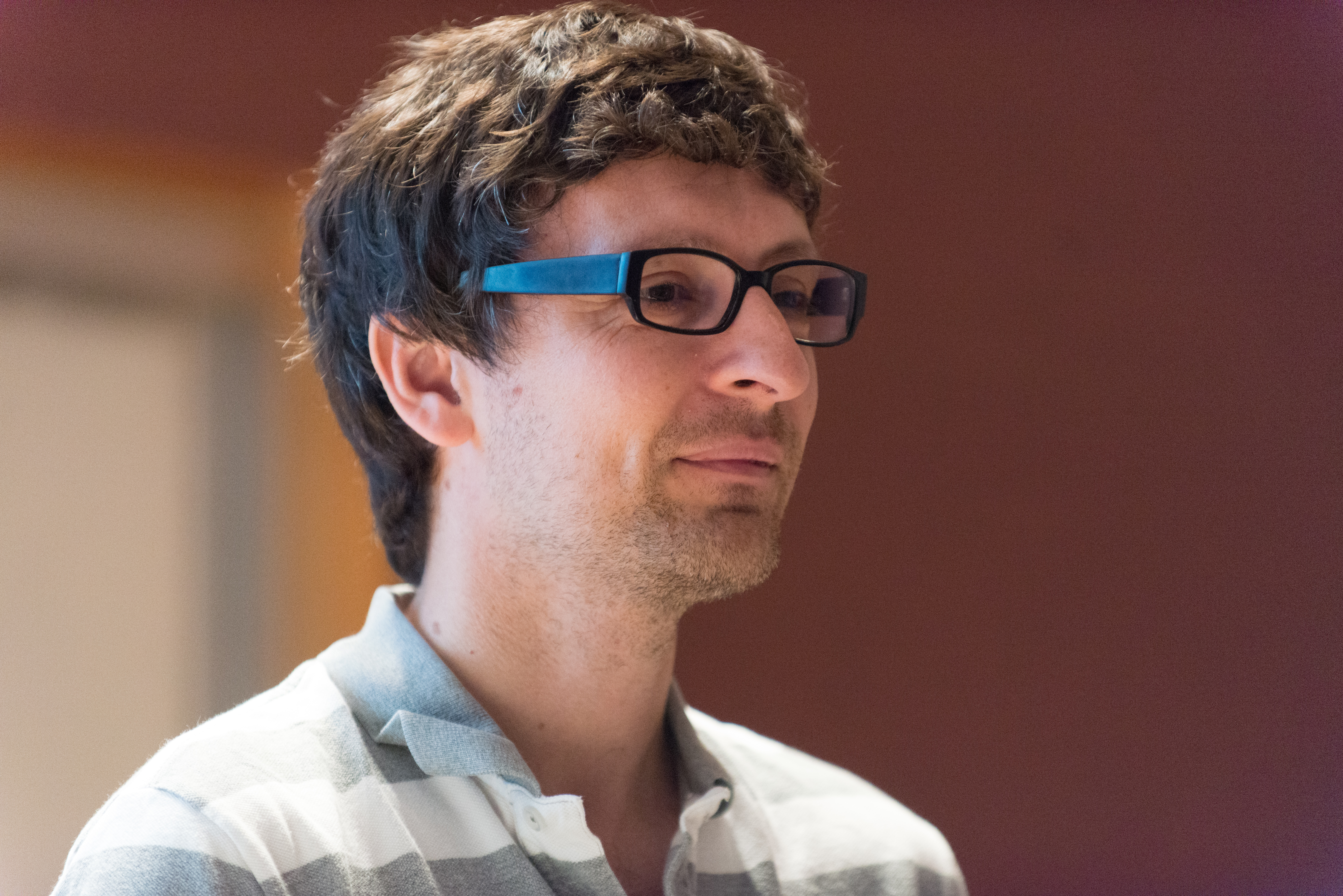 Professor of computer science at Stanford University. Speaking in room 306 of Soda Hall at University of California, Berkeley, about to take questions at the conclusion of his Invited talk on bounds for the sweep algorithm for graph partitioning.